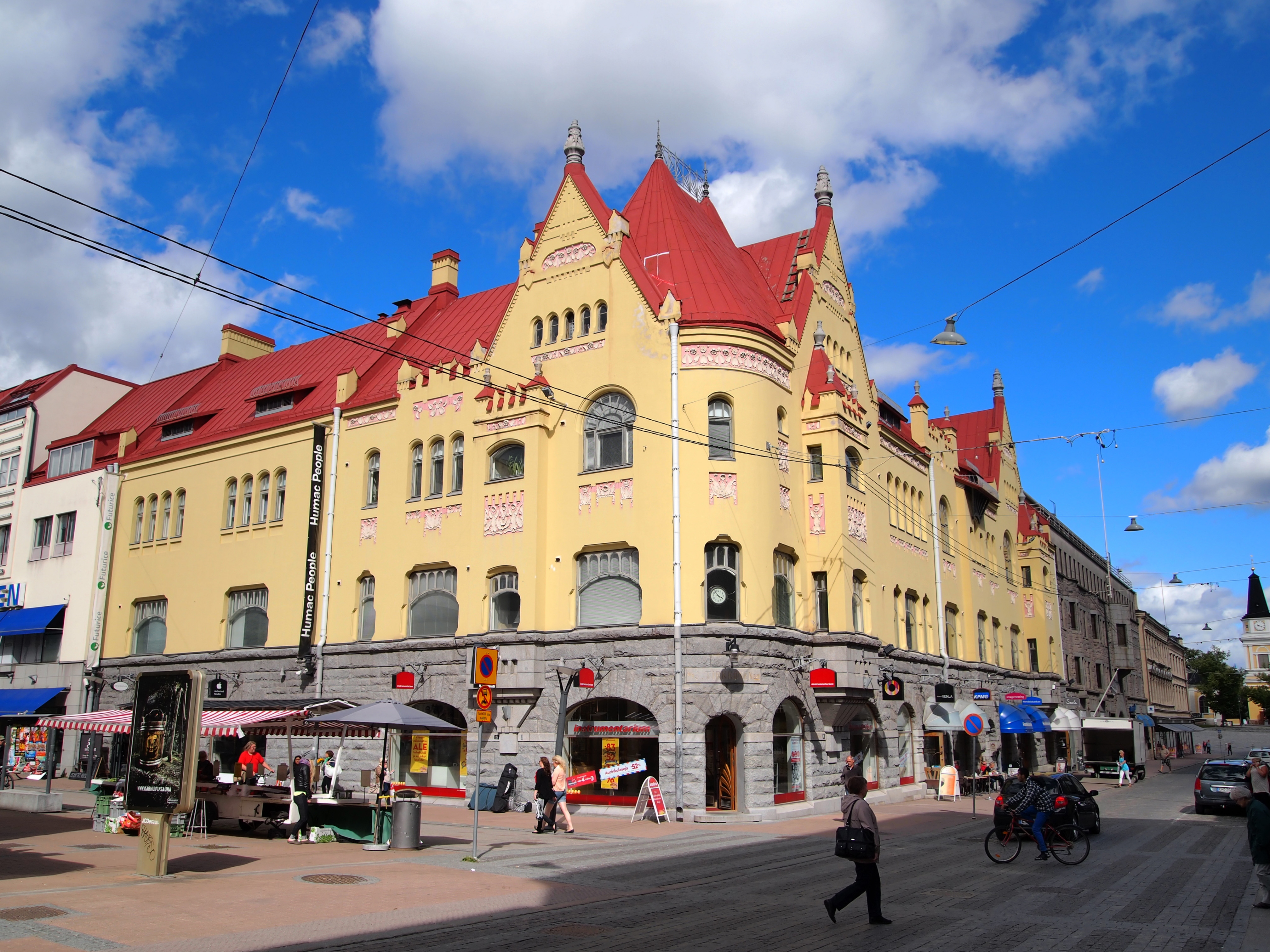 House of Tirkkonen on the corner of the street Kauppakatu and Kuninkaankatu in Tampere.